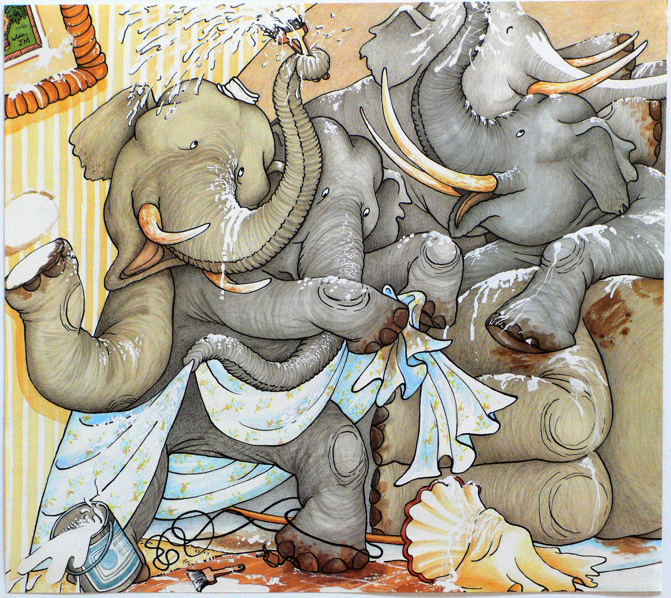 The Right Number of Elephants (4) illustrated by Felicia Bond (illustrator, children's book illustrator), written by Jeff Sheppard